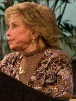 June Foray's Birthday. Cropped from original.